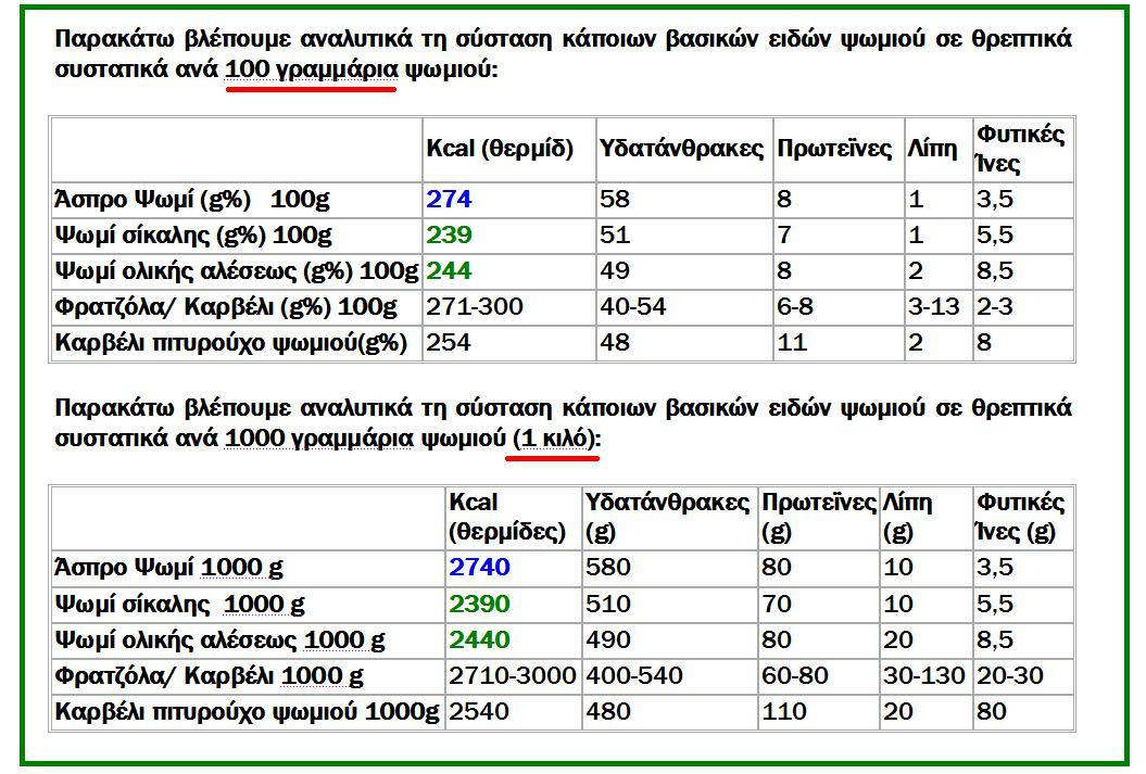 Bread composition in greek